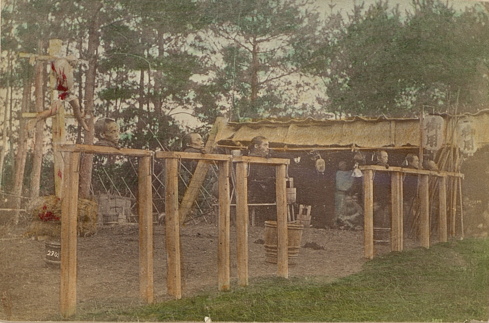 The severed heads of criminals at a watch post, c. 1909. Courtesy UVM Libraries' Center for Digital Initiatives :: The University of Vermont :: Burlington, VT 05405